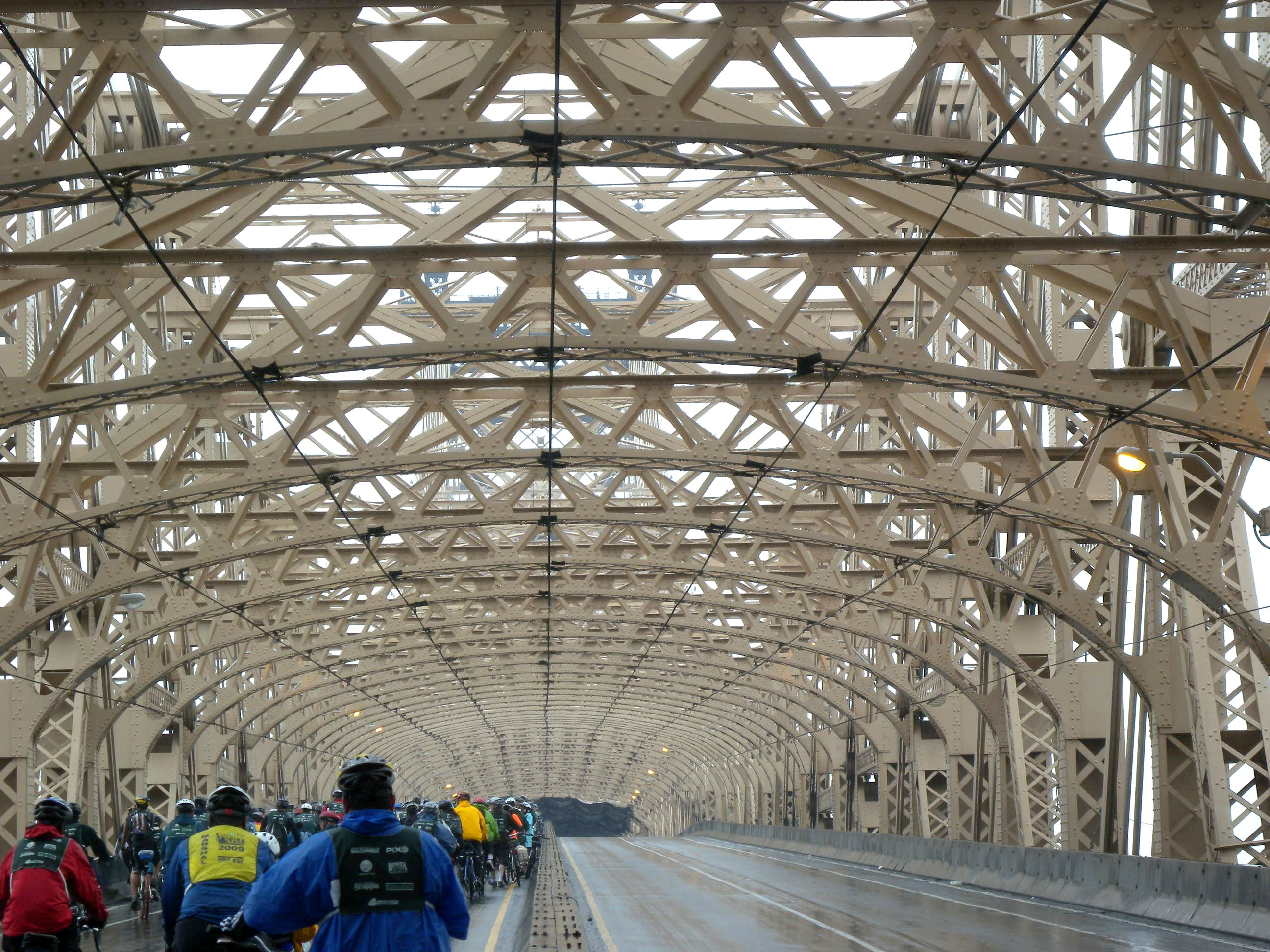 Looking east along the top level of Queensboro Bridge during a rainy Five Boro Bike Tour.